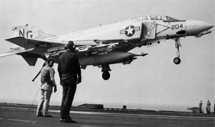 A U.S. Navy McDonnell F-4B-26-MC Phantom II (BuNo 153020) from Fighter Squadron VF-92 Silver Kings approaches the aircraft carrier USS Enterprise (CVAN-65). VF-92 was assigned to Carrier Air Wing 9 (CVW-9) aboard the Big E for a deployment to Vietnam from 3 January to 18 July 1968.The F-4B 153020 was shot down by a Vietnamese surface-to-air missile on 15 August 1972 while in service with VF-161, CVW-5, aboard USS Midway (CVA-41).